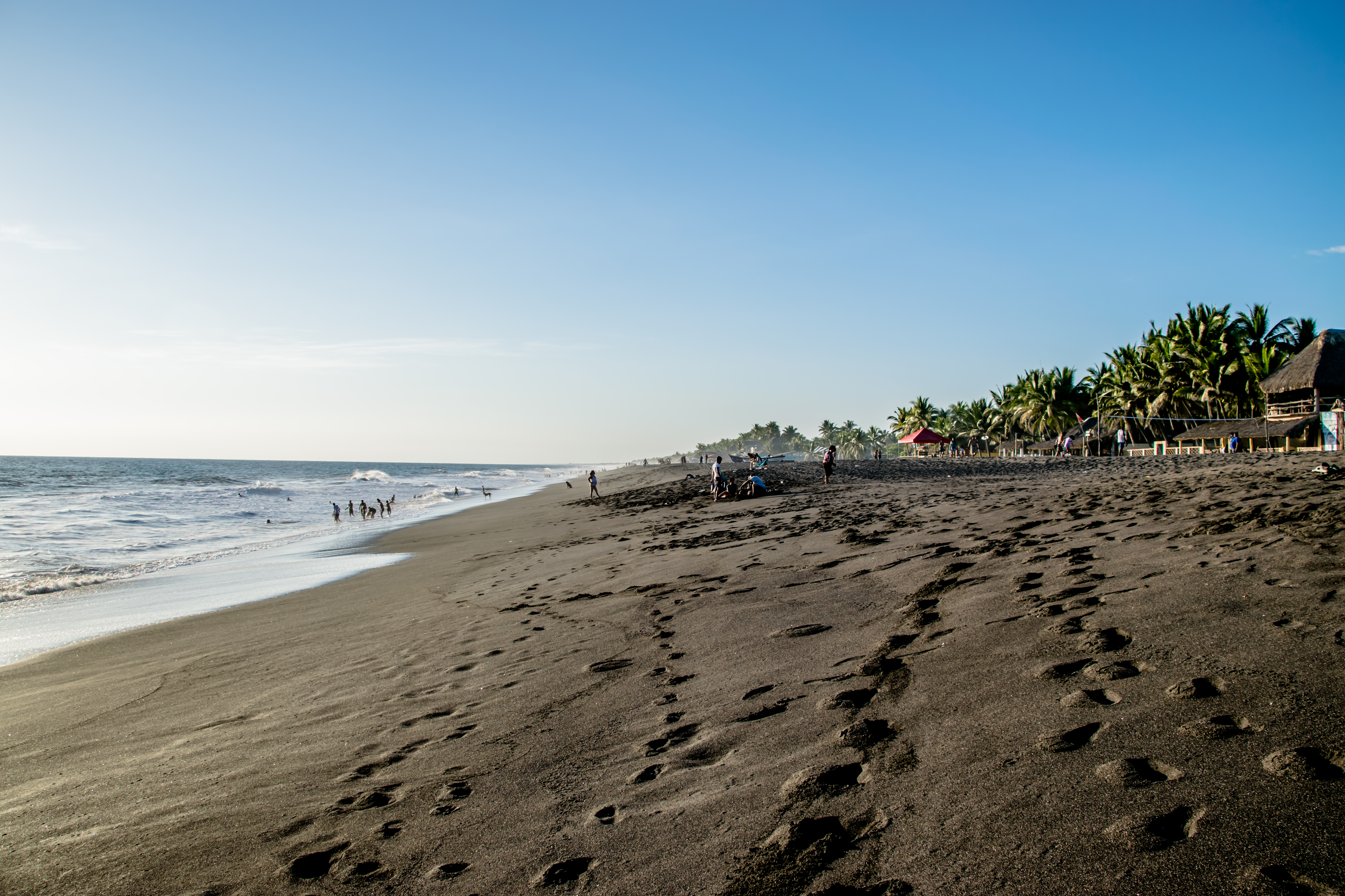 The beach in Monterrico, Guatemala. They call it black sand, but it's more of a grey.